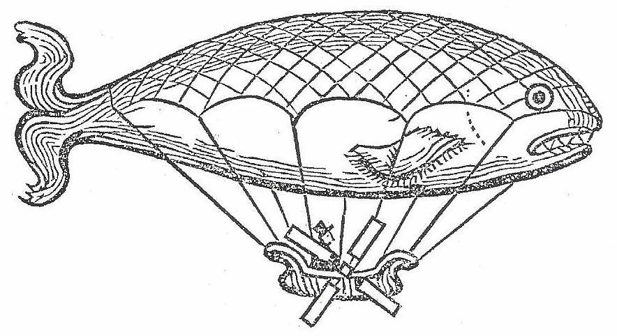 Pauly commissioned Aime Bolle, the city's most famous balloon designer, to build an airship for him in accordance with his plans drawn up in Bern. Its maiden voyage on 22 August 1804 in the castle park of Sceaux was, from a technical point of view at least, quite successful, and a year later, on 4 November 1805, at half past three in the afternoon, the Flying Fish rose again. As Pauly told the readers of the Journal de Paris the next day, it sailed from the Tivoli Park in a moderate easterly wind at the speed of a galloping horse to the Champs-Élysées and the Place de la Concorde, where the aeronaut operated his aerial rudder and managed, according to his own words, five or six minutes against the wind to stay in place and to enjoy the thunderous applause of the onlookers. (For the planned return to Tivoli Park, he wrote that, regrettably, he had needed the muscular strength of an additional man, so the Flying Fish drifted west for another eighty kilometers, landing four and a half hours later at dusk, near the Cathedral of Chartres.)